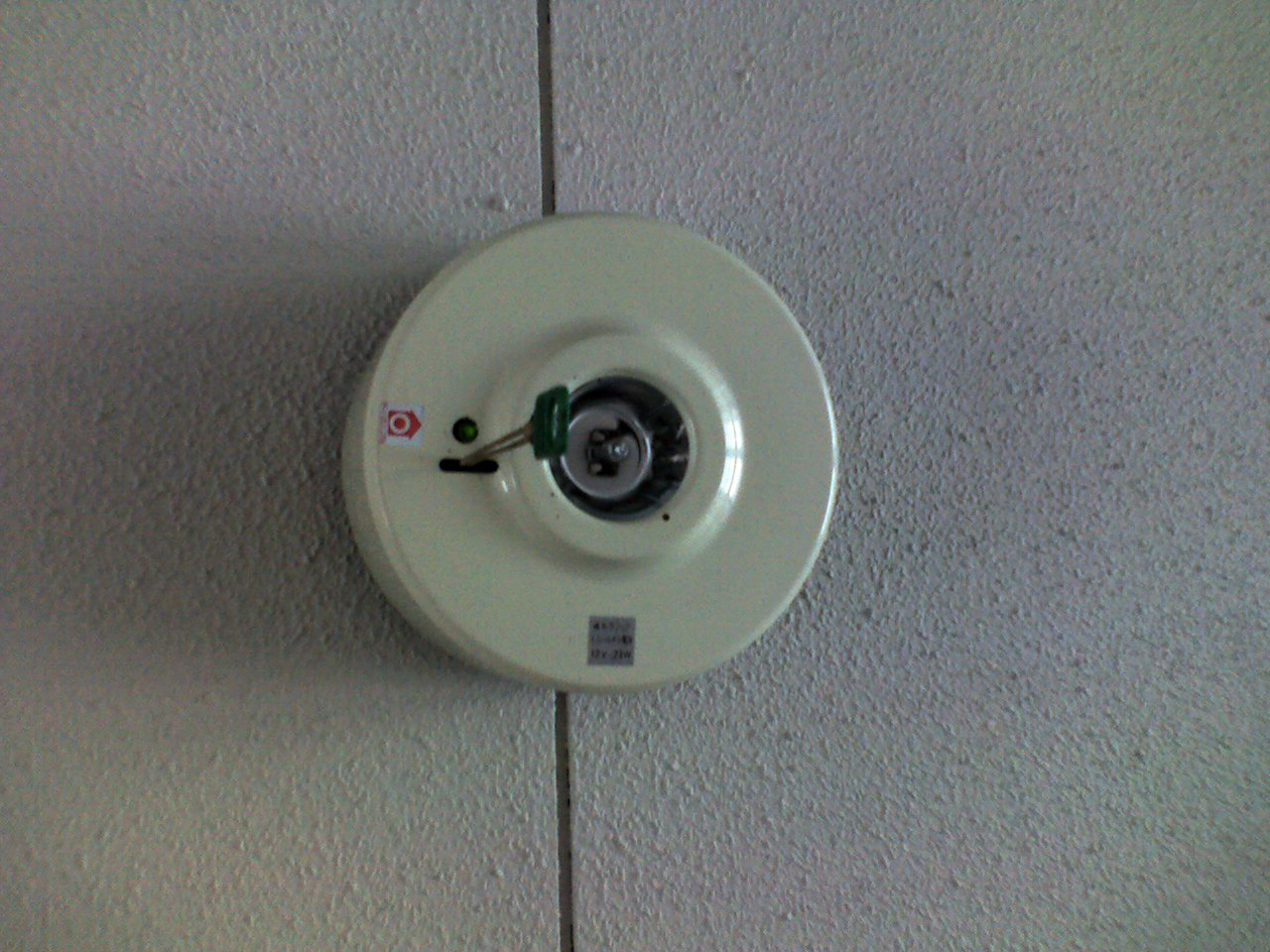 Emergency light(非常灯)